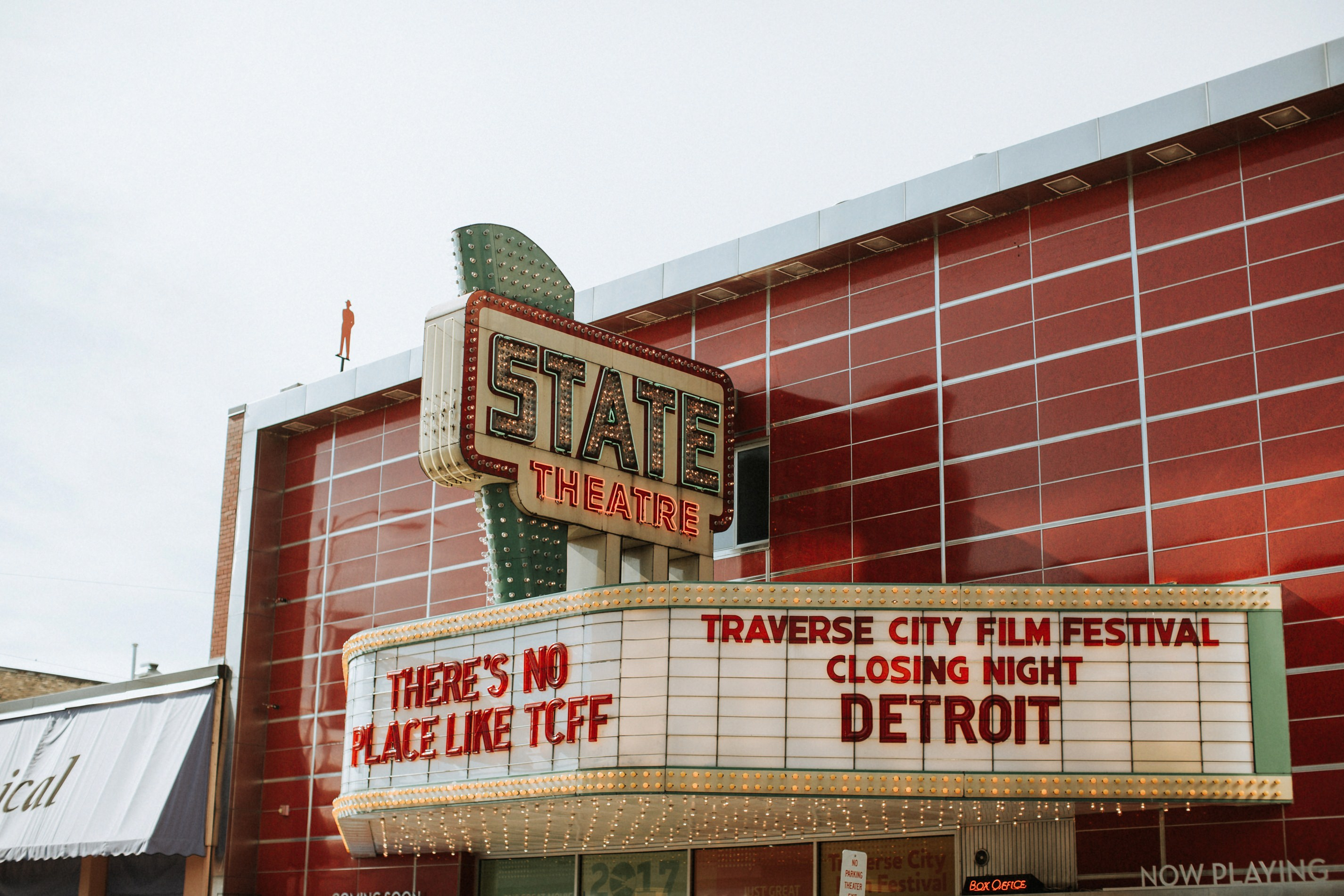 Photo Credit: The Traverse City Film Festival